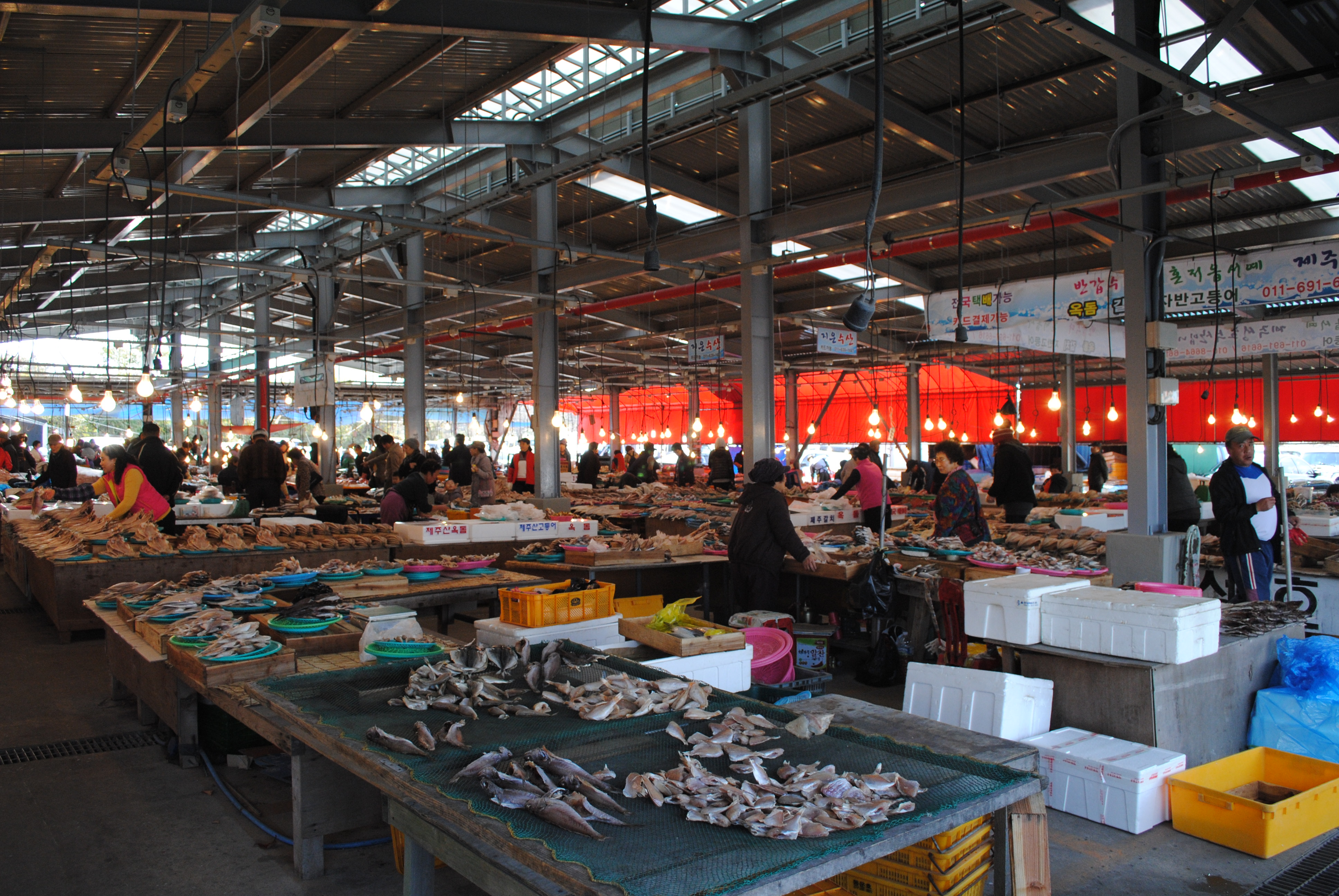 Jeju five day market, a traditional market in Jeju Island, Korea.